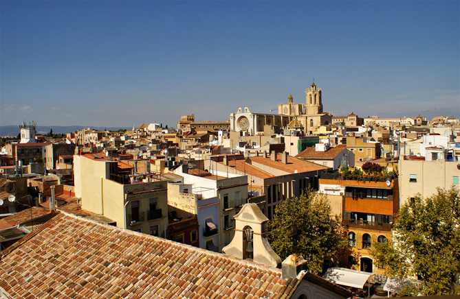 View for Gothic quarter of city.